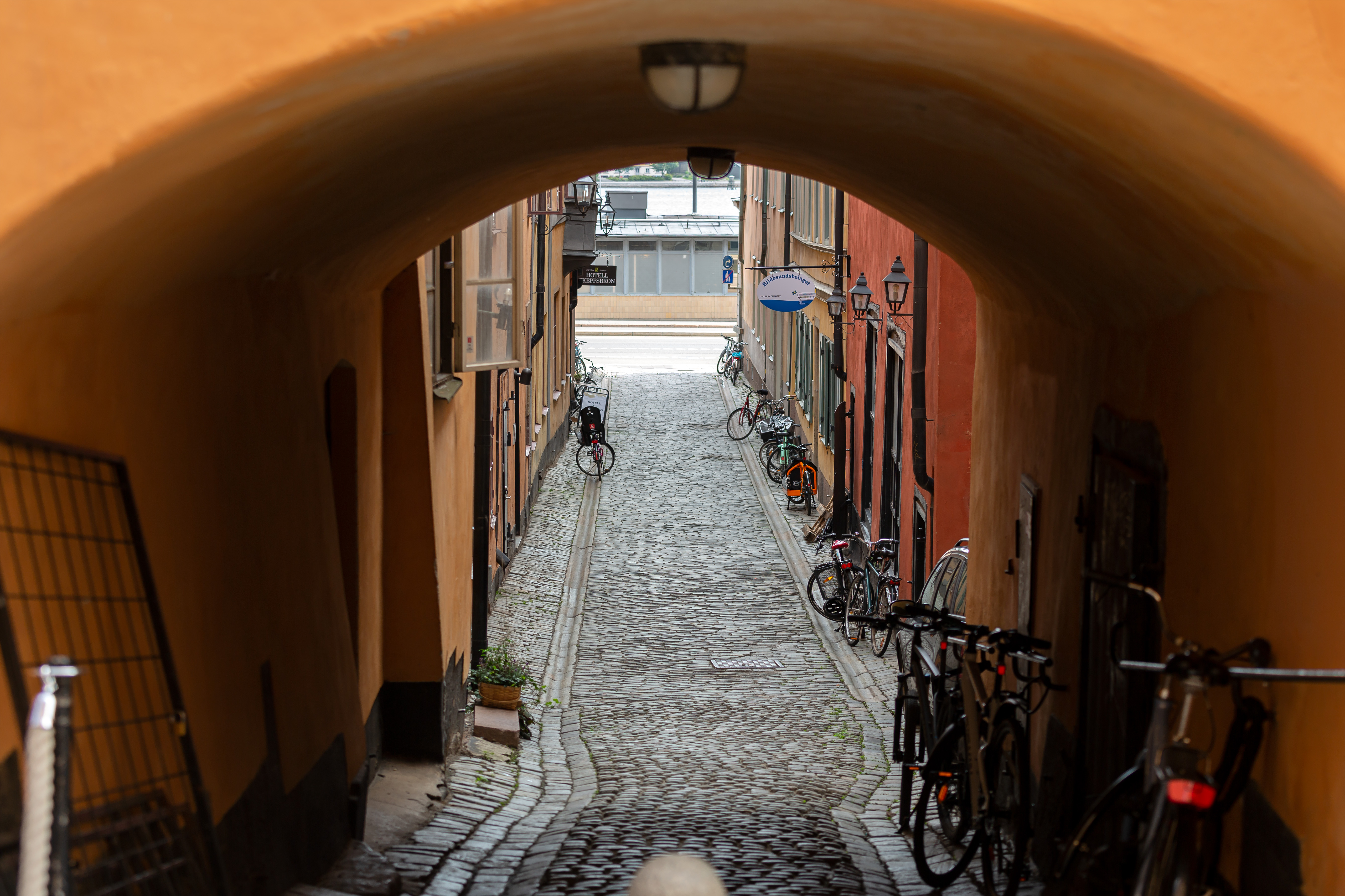 Ferkens Gränd in Gamla stan, Stockholm, Sweden.